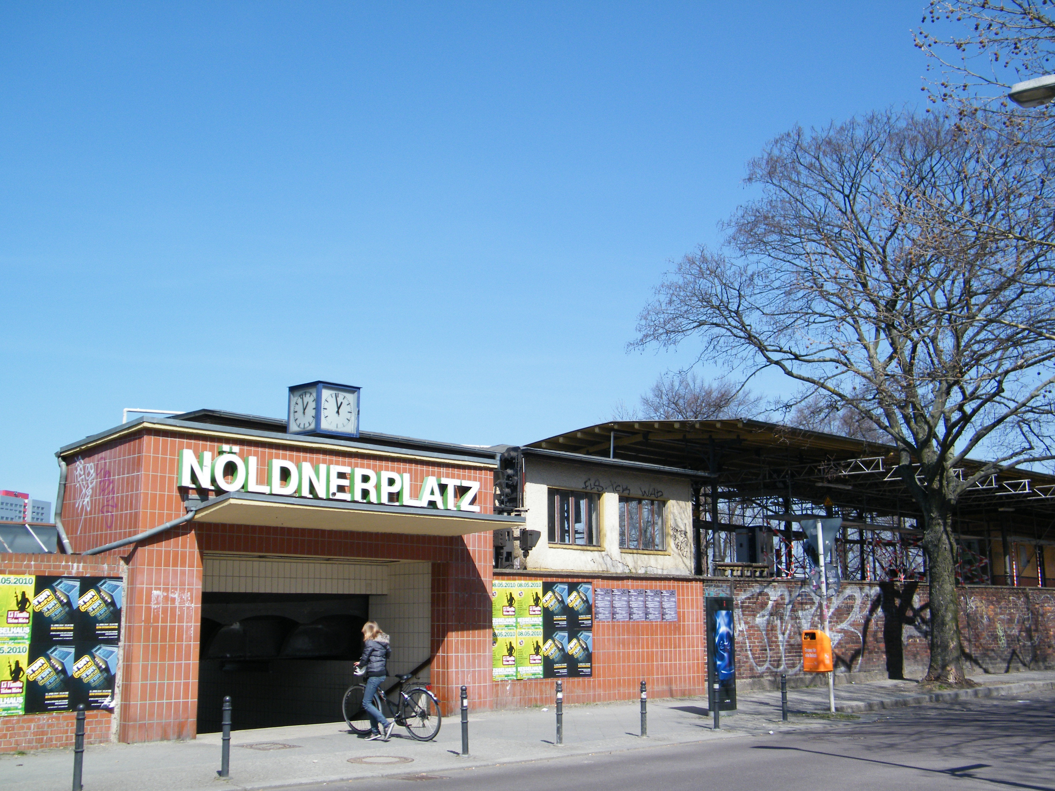 Berlin, Noeldnerplatz, Station